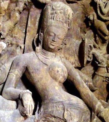 Ardhanarishvara cropped